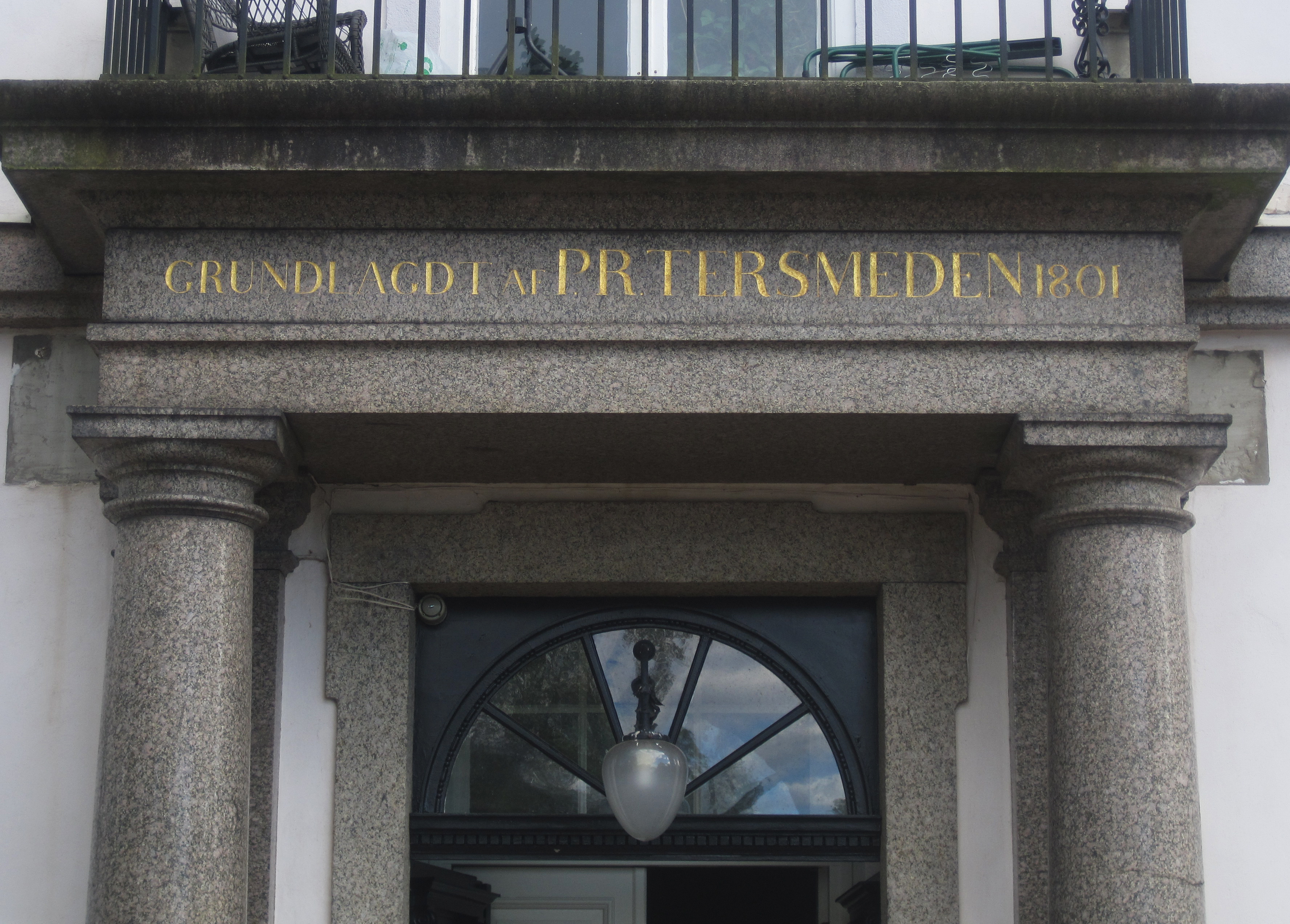 Inscription above the main entrance of the Tersmeden Manor at Ramnäs, erected in 1801 by Per Reinhold Tersmeden (1751–1842).